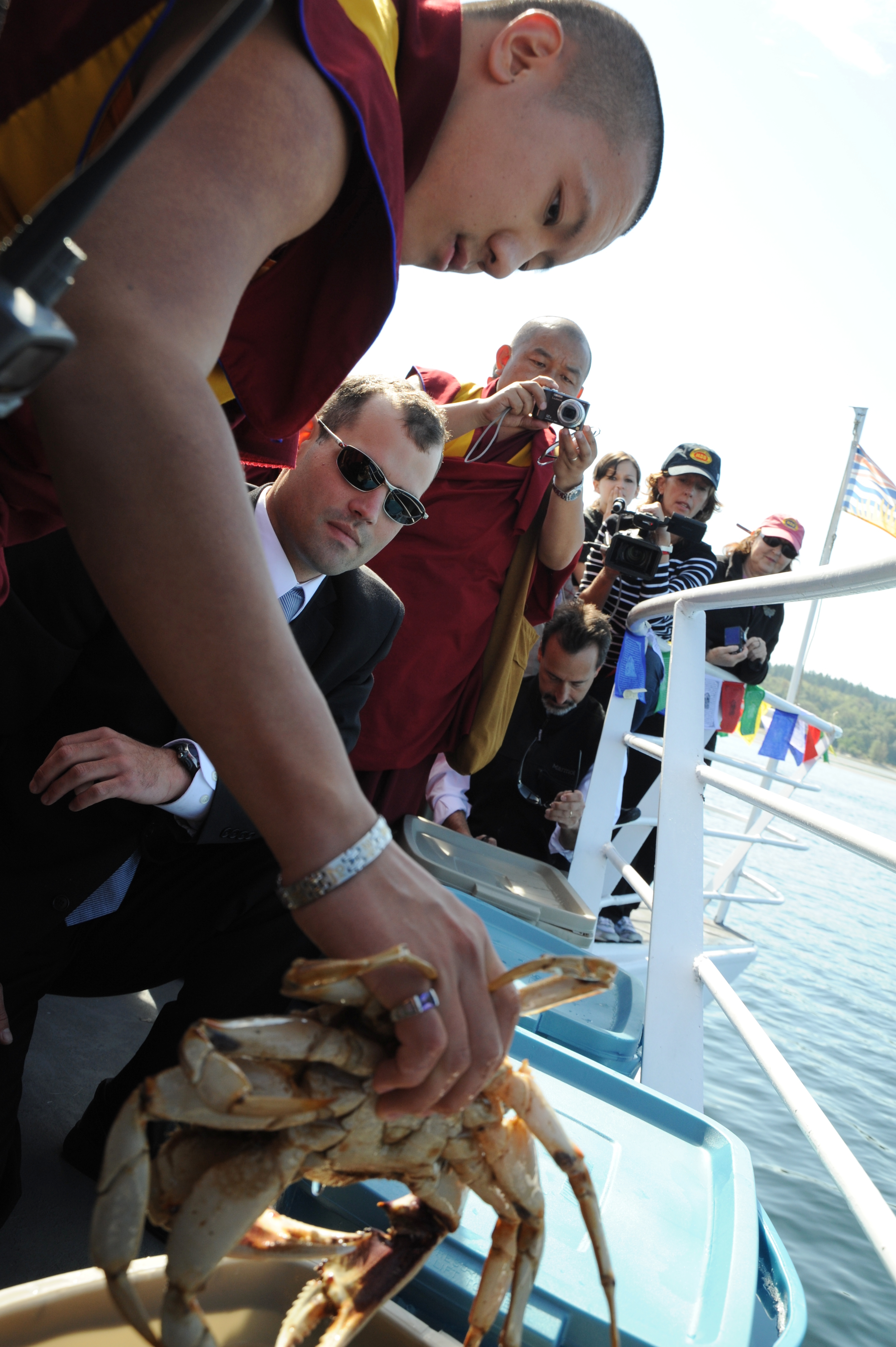 Dilgo Kyentse Yangsi Rinpoche examining a crab prior to release.